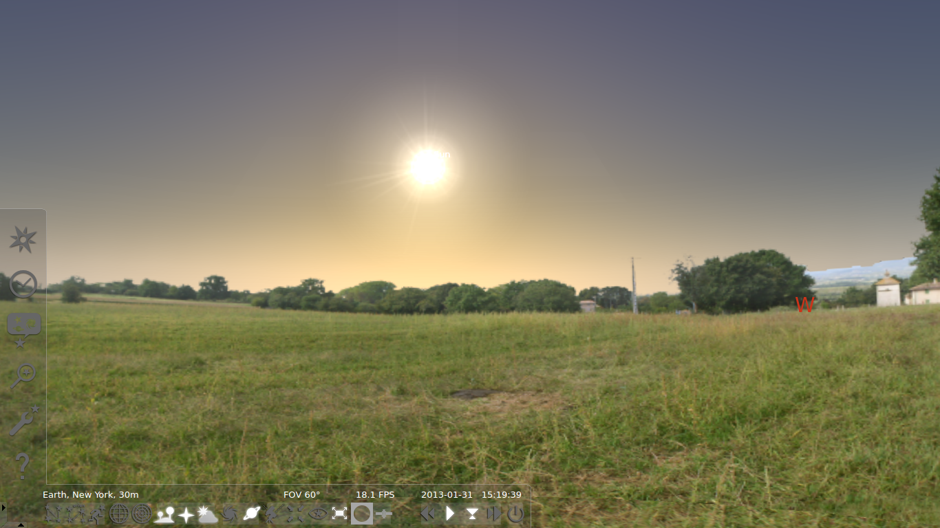 A screenshot from Stellarium 0.12.0, a GNU GPL licensed program.